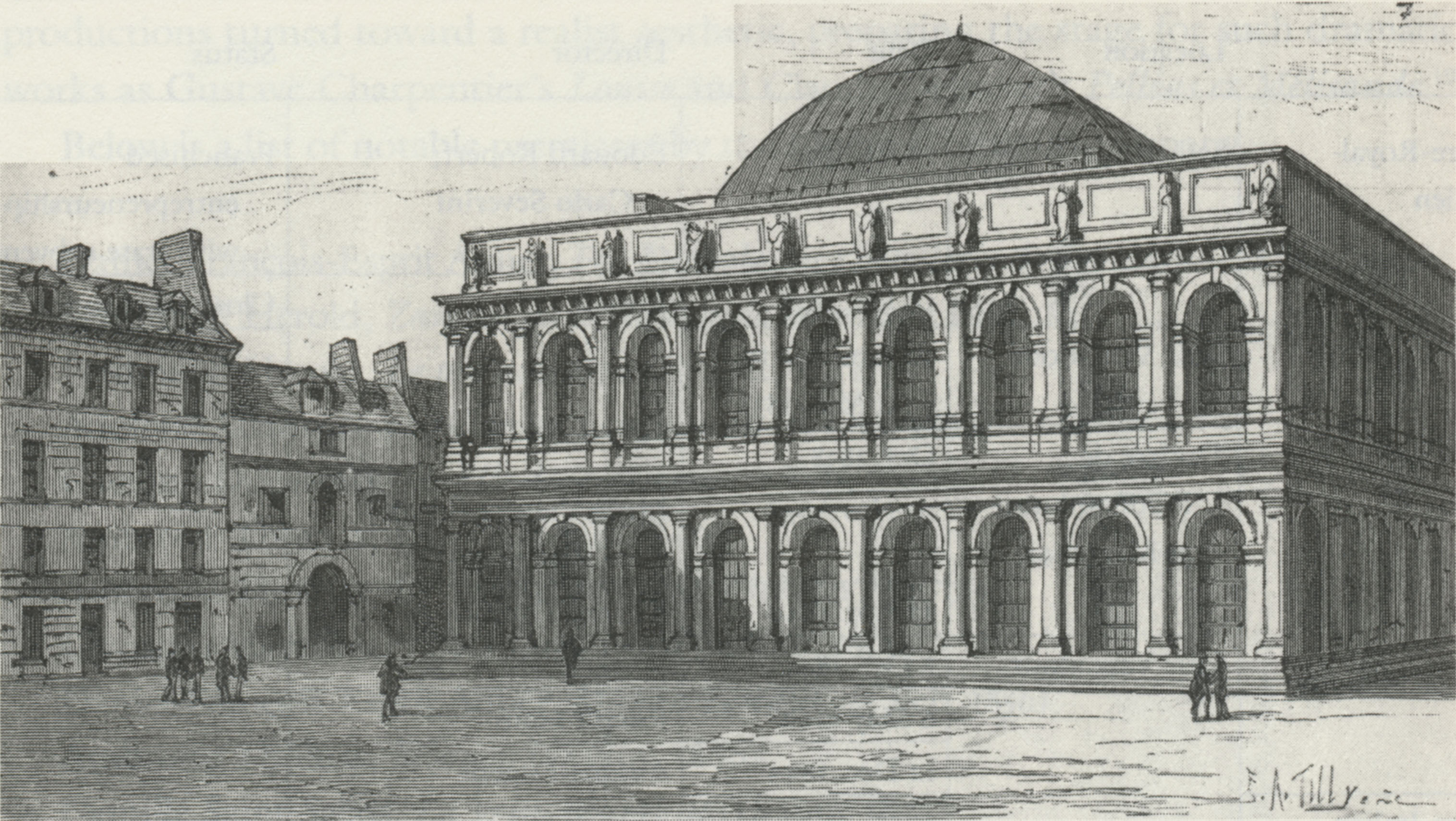 First published by L'illustration, 15 December 1883.